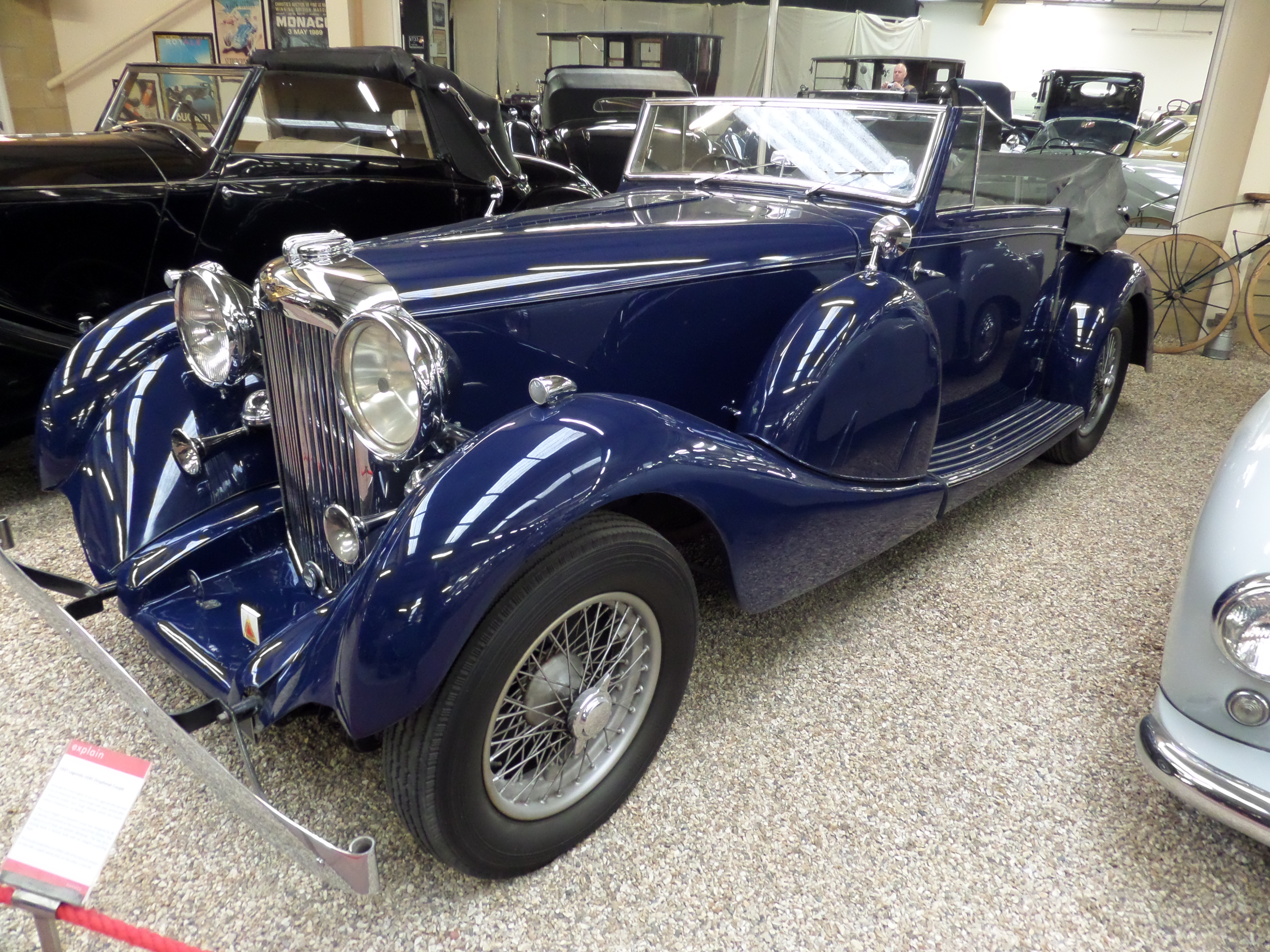 Lagonda LG6 Drophead Coupe 1937